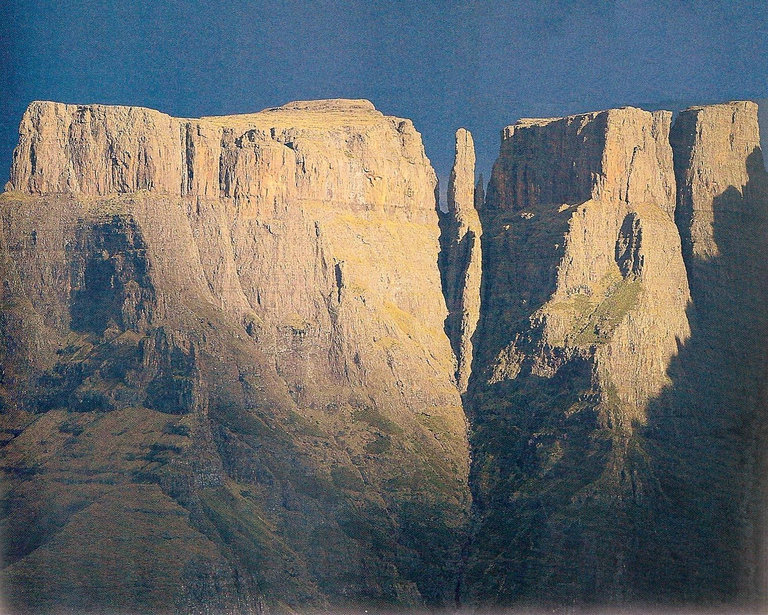 Eastern Buttress and Devils Tooth, Drakensberg Amphitheatre